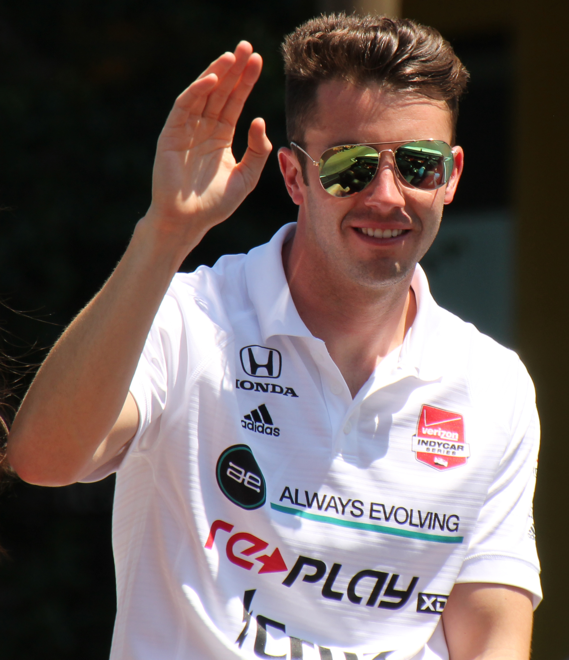 James Davison in the 2015 500 Festival Parade in Indianapolis, Indiana